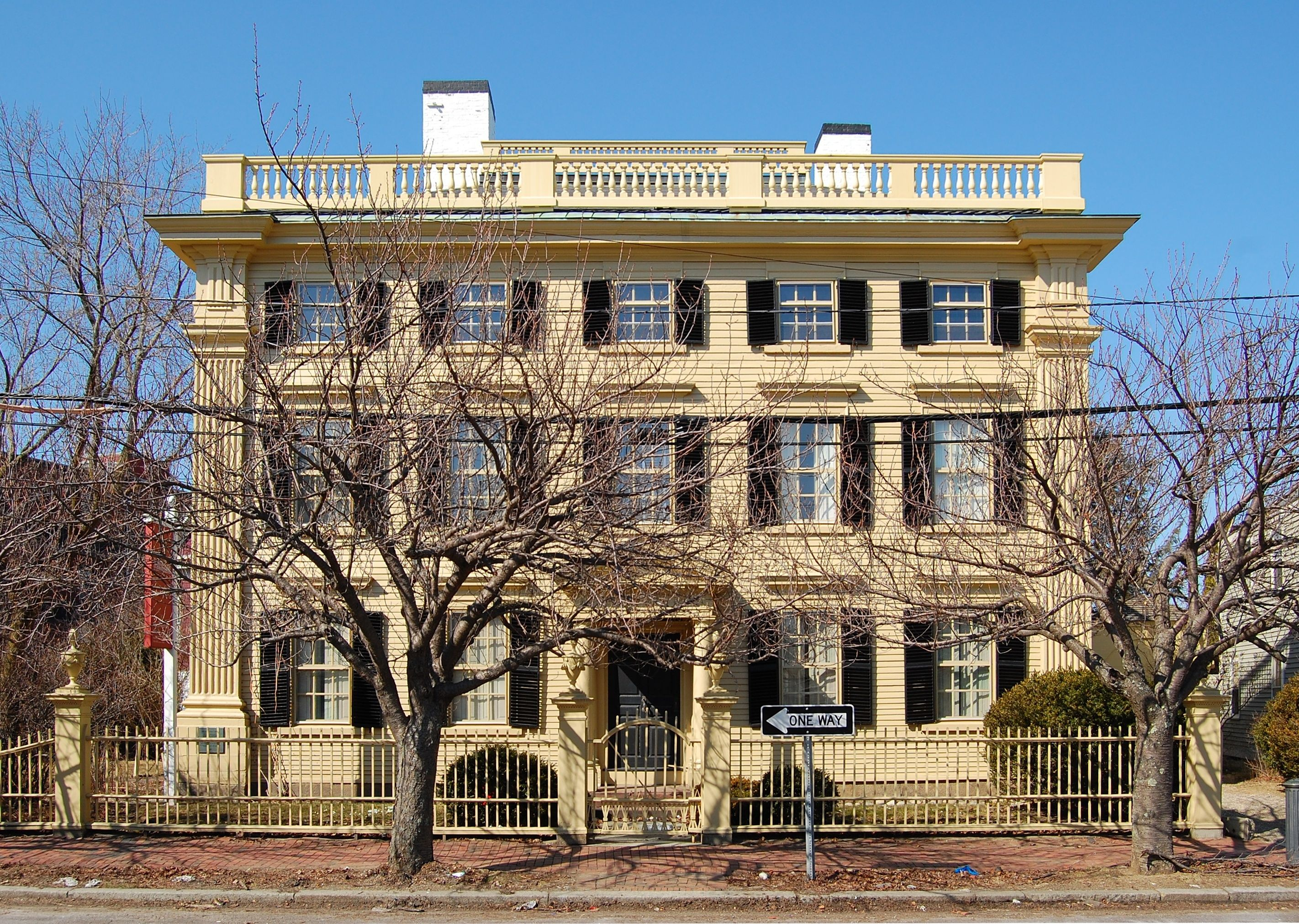 The Peirce-Nichols house, built circa 1782 by architect Samuel McIntire for Jerathmiel Peirce, a co-owner of the merchant ship Friendship.